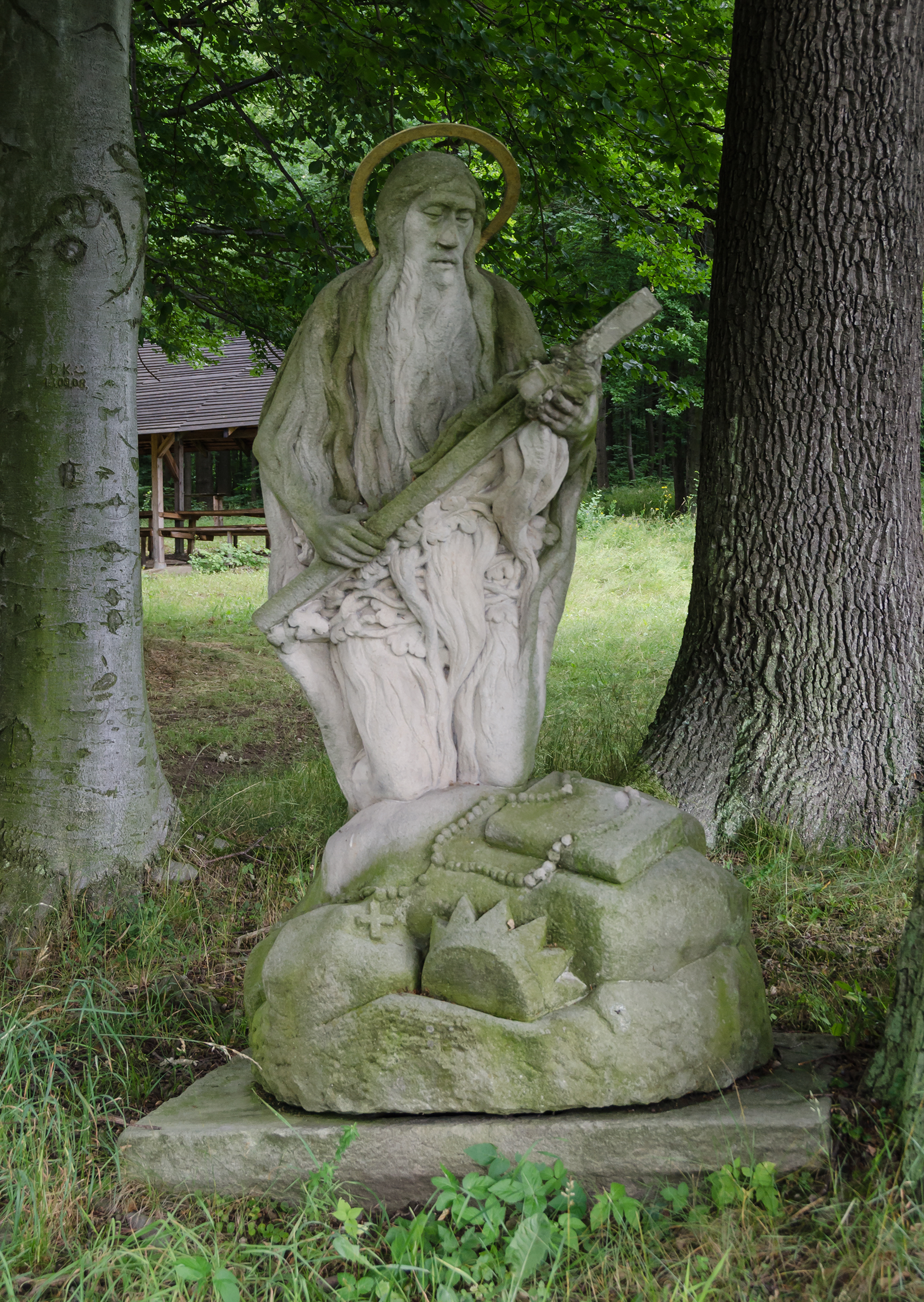 Statue of Onuphrius in Gorzanów